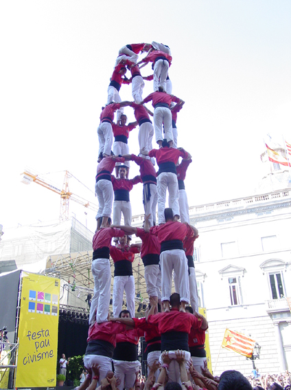 First 5 de 8 of Castellers de Barcelona during la Mercè.